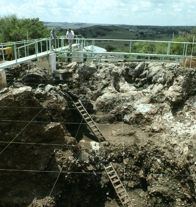 A photograph of archaeologists at Sterkfontein cave, where Mrs Ples was found.